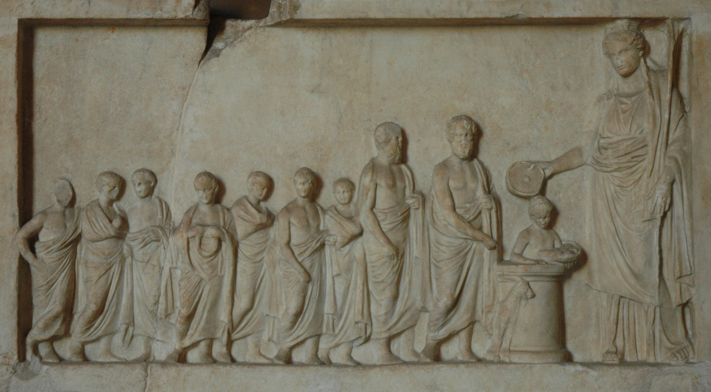 Sacrifice of a goat: seven ephebes (on the left), two bearded men (priests or magistrates) and a servant laying down offerings on the altar; the goddess (on the right, maybe Demeter) holds a scepter and an omphalos phiale.